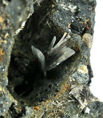 Laurionite Locality: Lavrion (Laurion; Laurium), Lavrion District Mines, Lavrion (Laurion; Laurium) District, Attikí (Attica; Attika) Prefecture, Greece (Locality at ) Size: 2.7 x 1.8 x 1.5 cm. SHARP, freestanding crystals to 5mm in a protected vug make this a REALLY fine laurionite specimen! One seldom sees such quality on the market. Old piece, ex. Bergakademie Freiberg collection (with label). Year of Discovery: 1887 at this, the type locality.